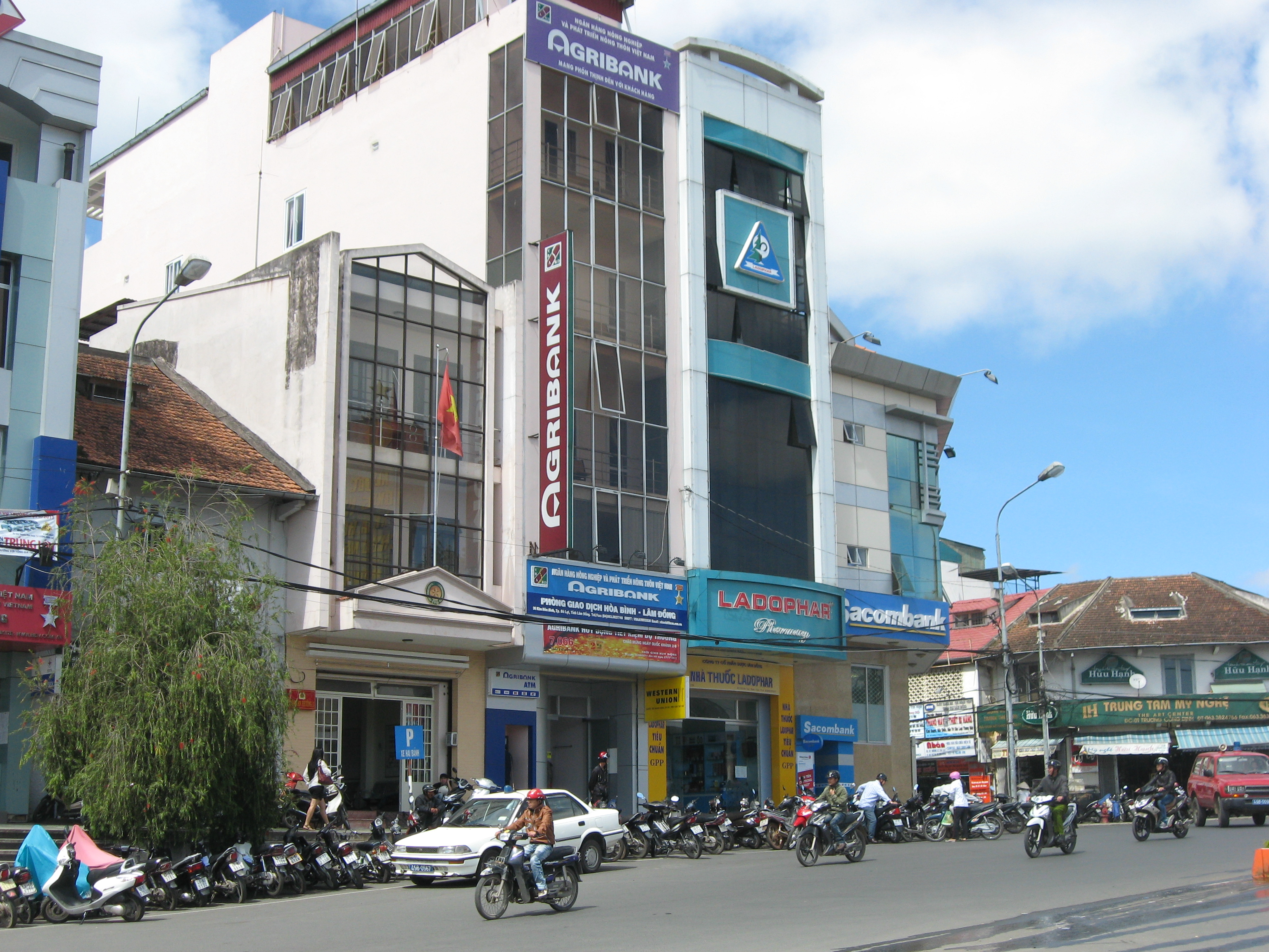 Agribank, khu Hoa Binh, Da Lat